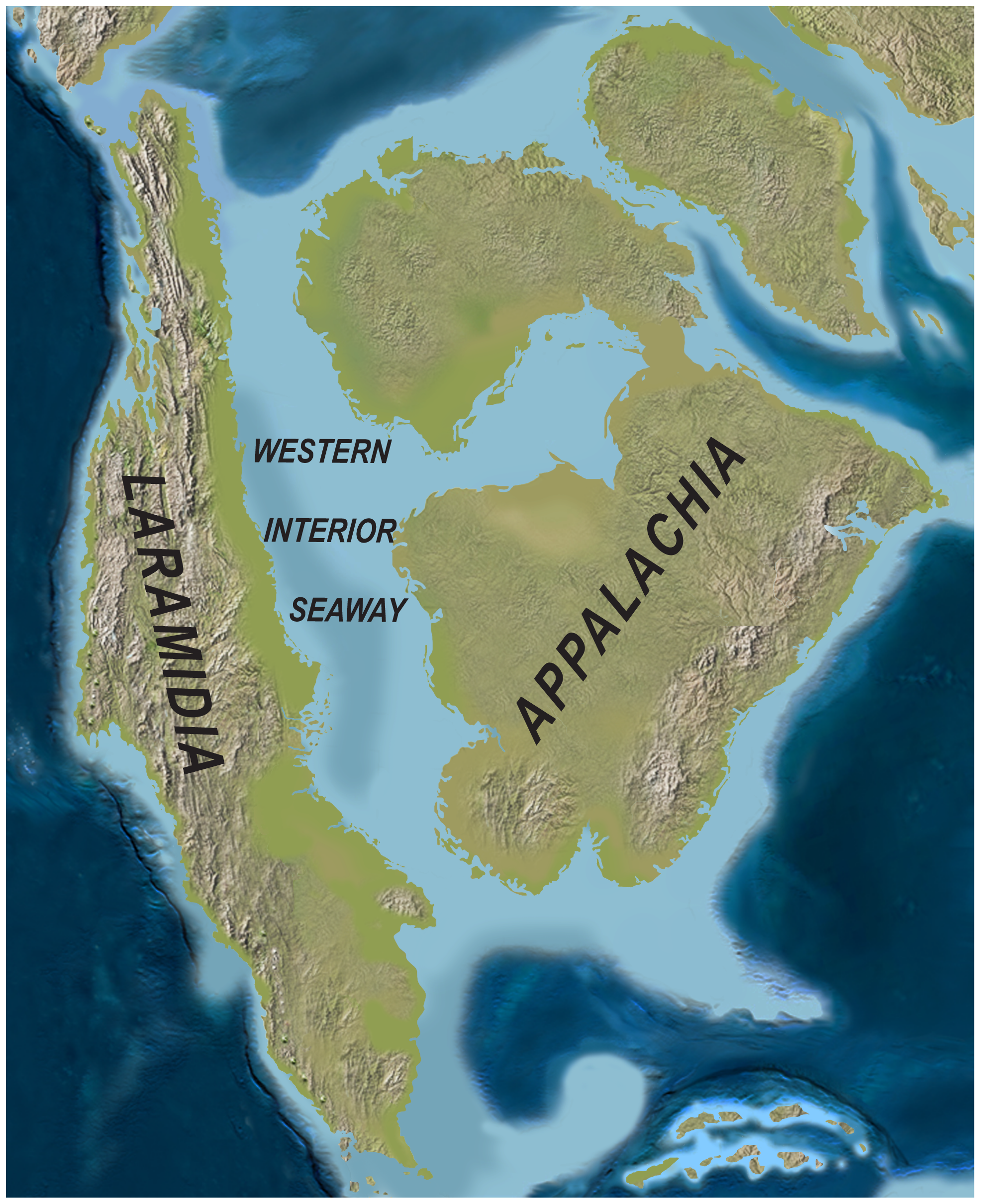 Paleogeography of North America during the late Campanian Stage of the Late Cretaceous (~75 Ma). Modified after Blakey.